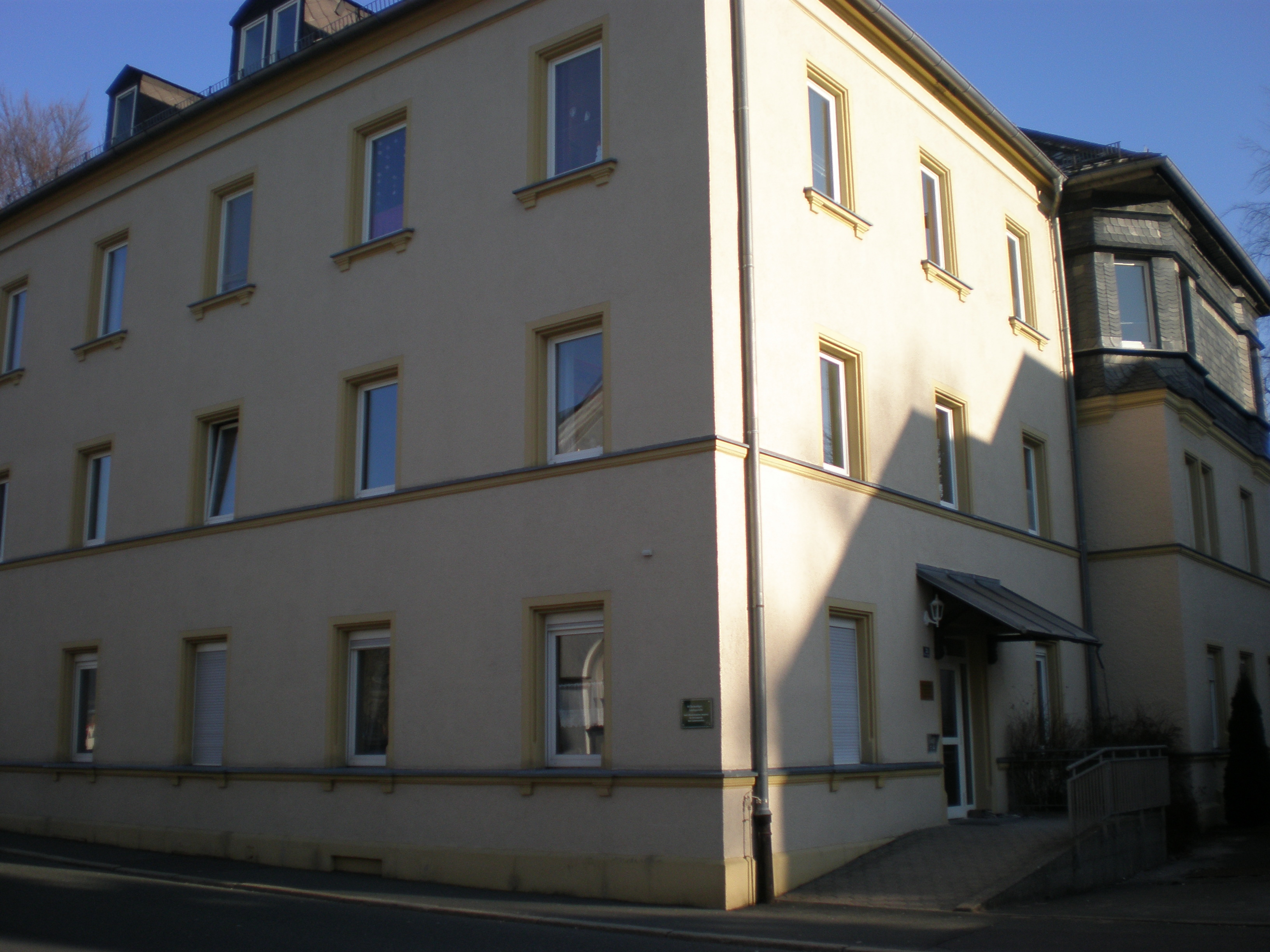 The former Court in Münchberg.